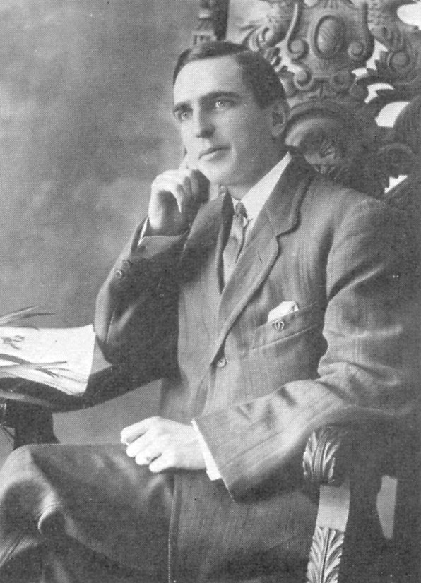 A 1915 photo of Joseph Lamb, ragtime composer.